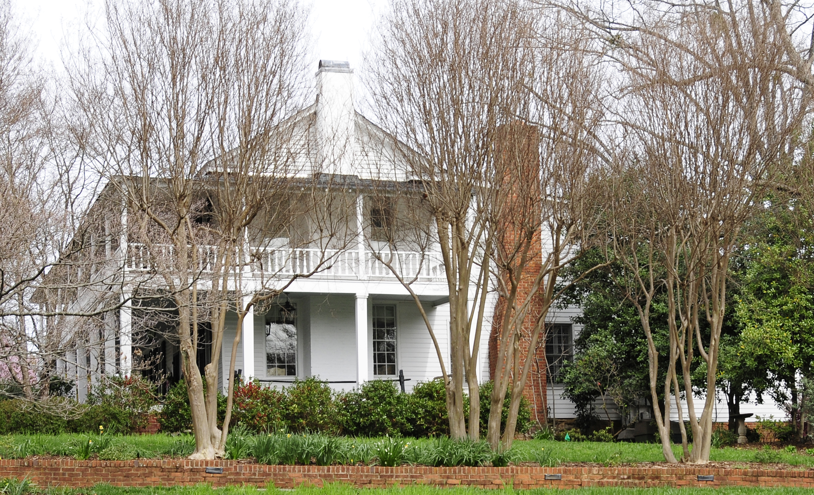 Whitehall